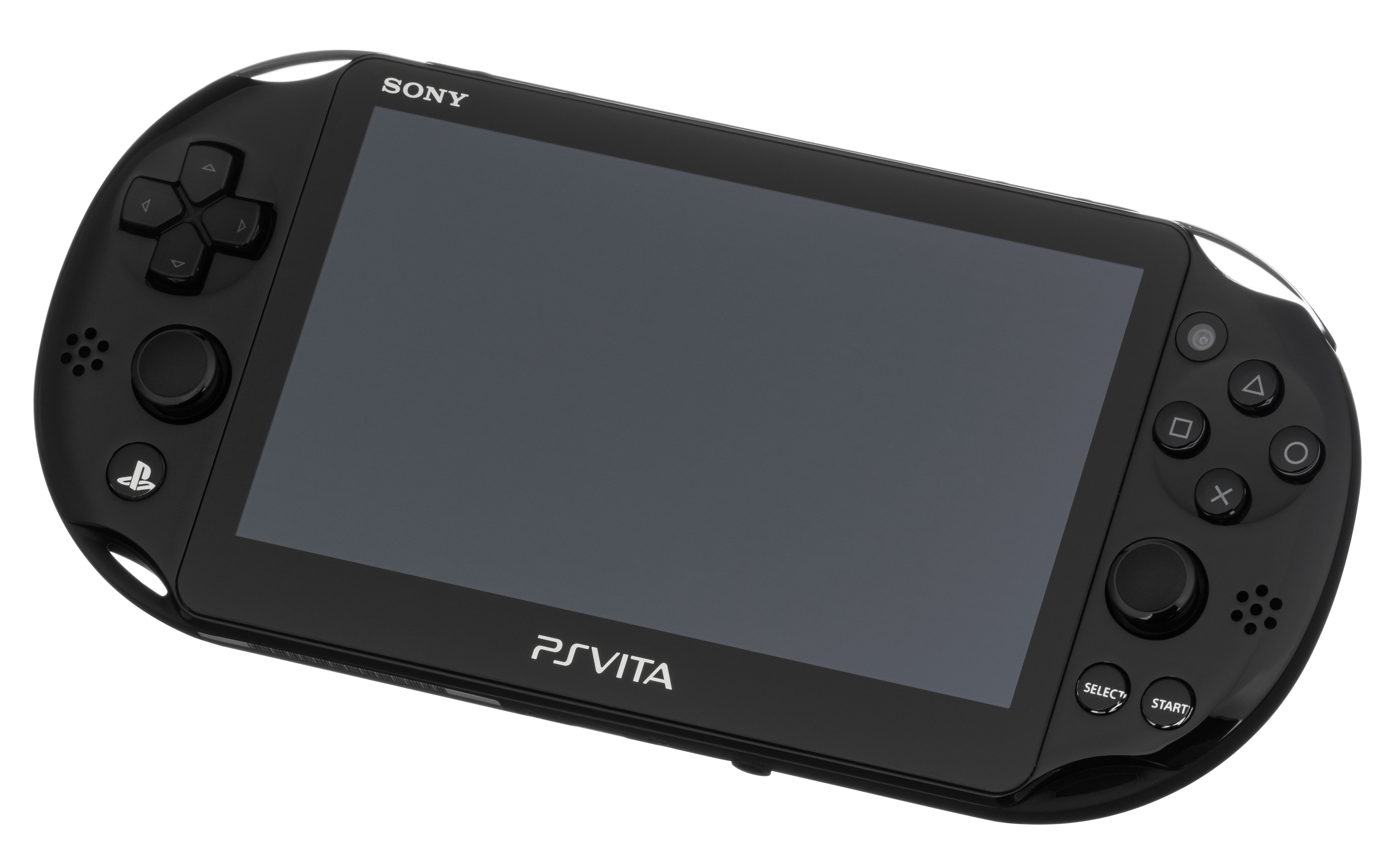 The PlayStation Vita, a handheld gaming console by Sony released in 2012. The successor to the PlayStation Portable (PSP), the Vita has numerous improvements over the previous system. It has rear and front touchscreens, dual analog sticks and a higher resolution screen. This model, the PCH-2001, is the second hardware version of the Vita and is thinner and lighter than the previous Vita, but loses the OLED screen and replaces it with an LCD one.